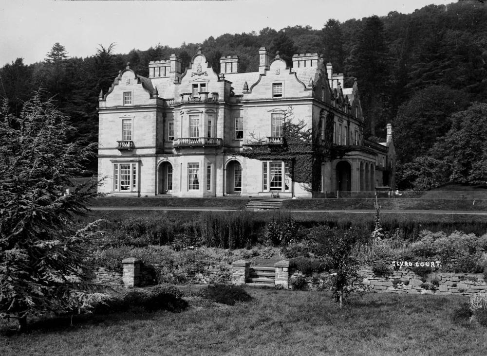 Abstract: Image of Baskerville Hall, Clyro Court, Hay-on-Wye.